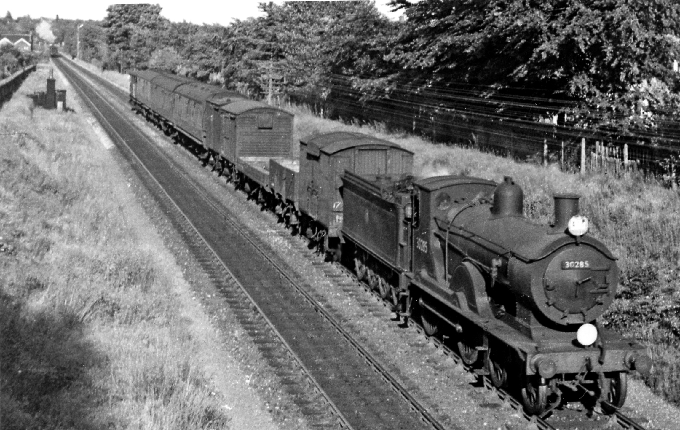 Down parcels train approaching Branksome station. View eastwards towards Bournemouth Central: ex-LSW London - Southampton etc. - Weymouth/Bournemouth West main line. The locomotive is ex-LSW Drummond T9 4-4-0 No. 30285 (built 1/1900, withdrawn 6/58). The headcode is for a Bournemouth Central - Dorchester goods train.